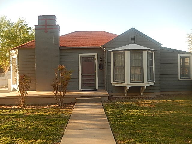 I took photo of George Walker Bush Boyhood Home in Midland, TX, with Nikon camera.